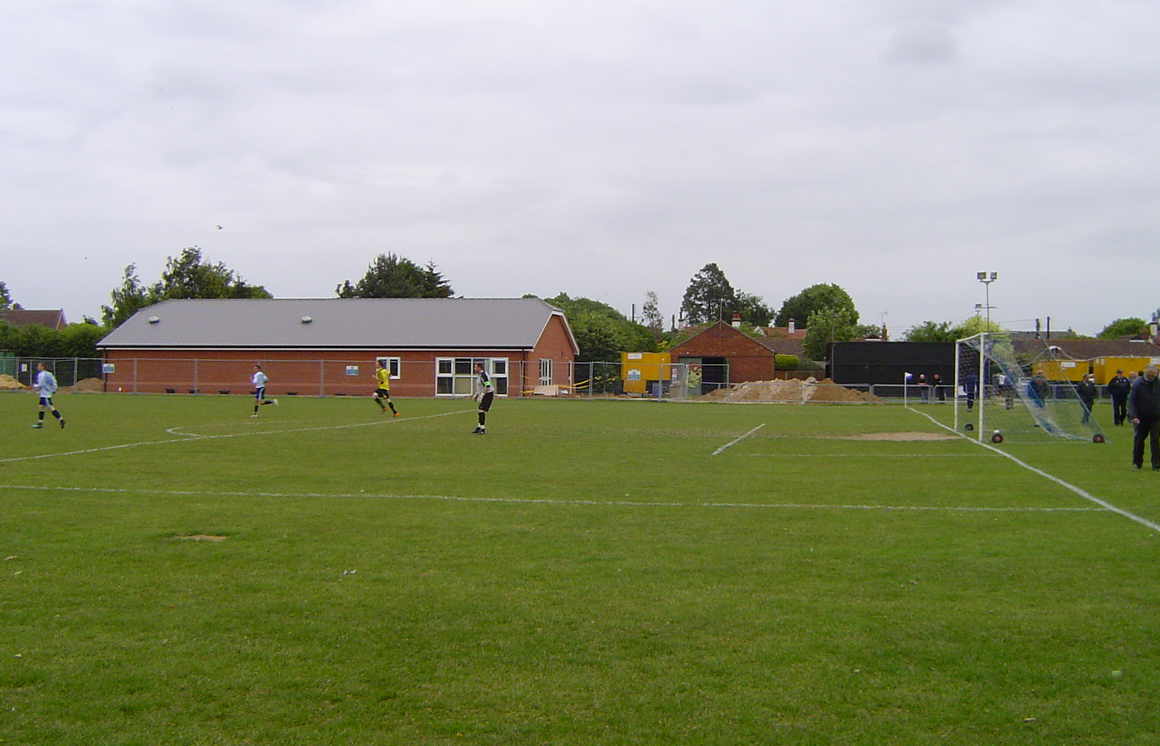 Lawford Lads - Clubhouse in the background